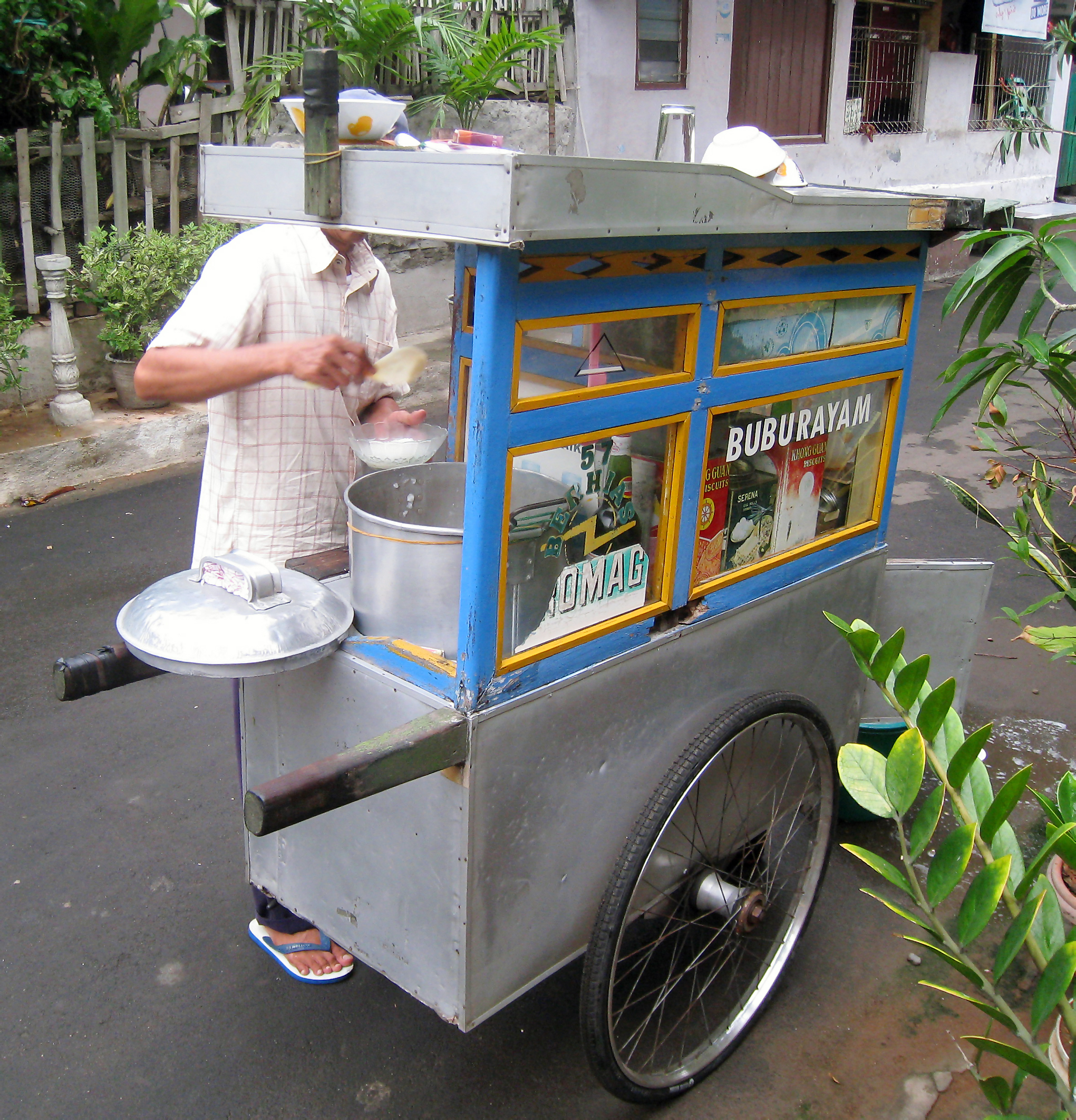 A Bubur Ayam (chicken rice congee) travelling vendor cart frequenting kampung or residential area every morning in Rawasari, Jakarta, Indonesia.